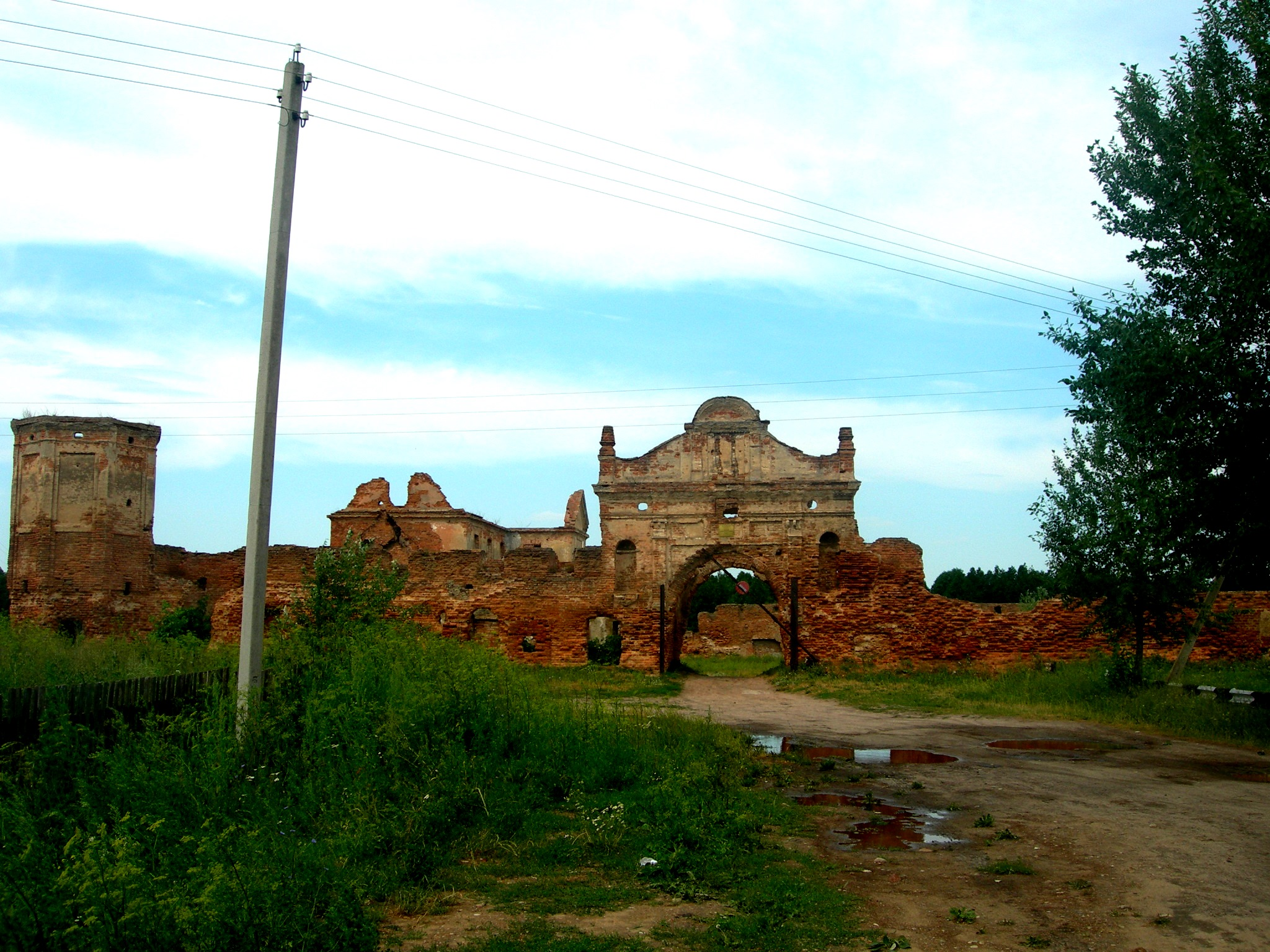 Ruins of Biaroza Carthusian monastery